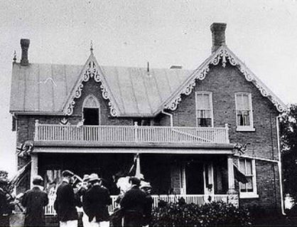 A 1919 photograph of the farm homestead of Arthur Currie, located near Strathroy, Ontario, Canada. The photograph was taken on the occasion of his homecoming, following the First World War. The house eventually fell into disrepair, and was demolished in 2016.